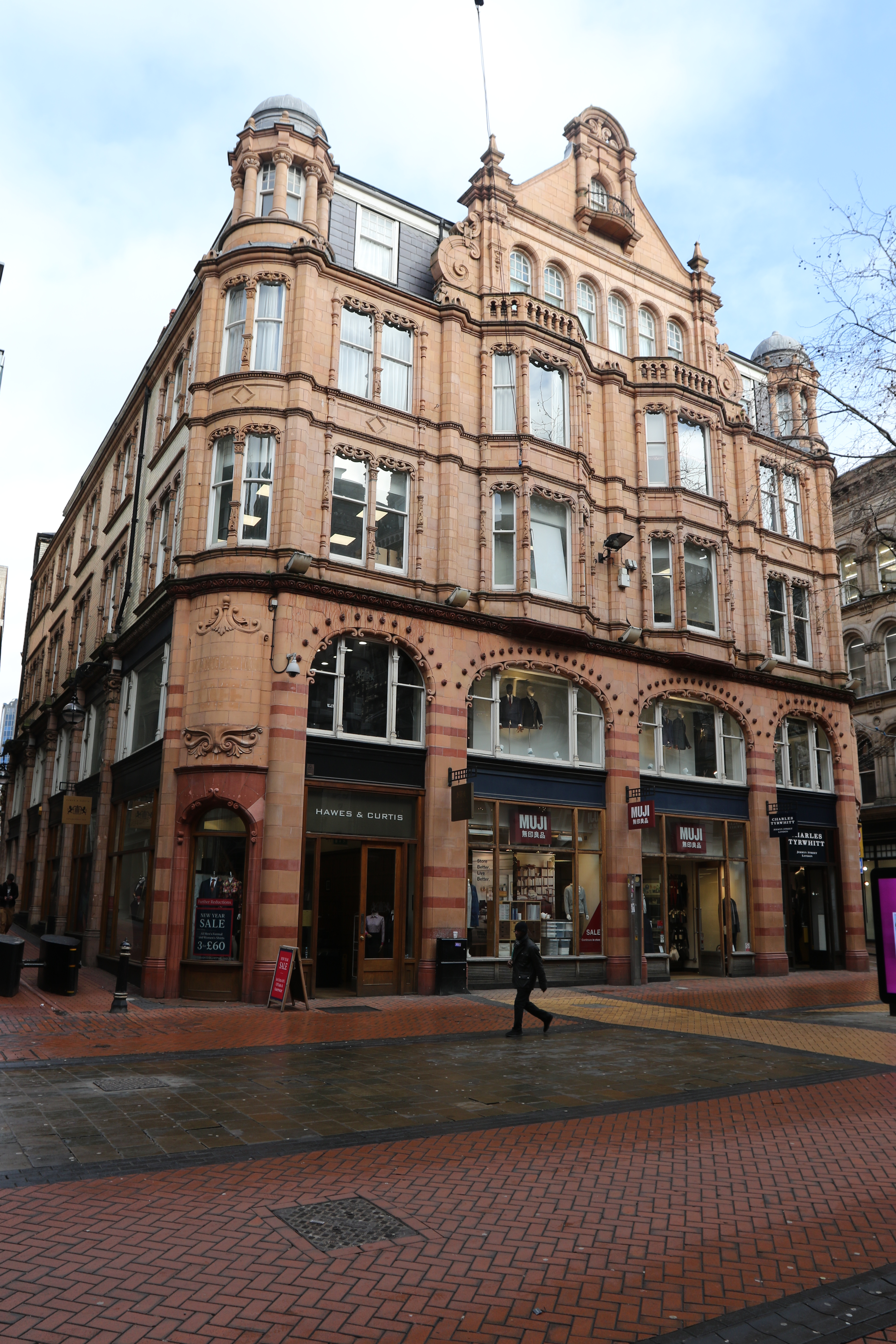 Newton Chambers of 1898 by Essex, Goodman and Nicol